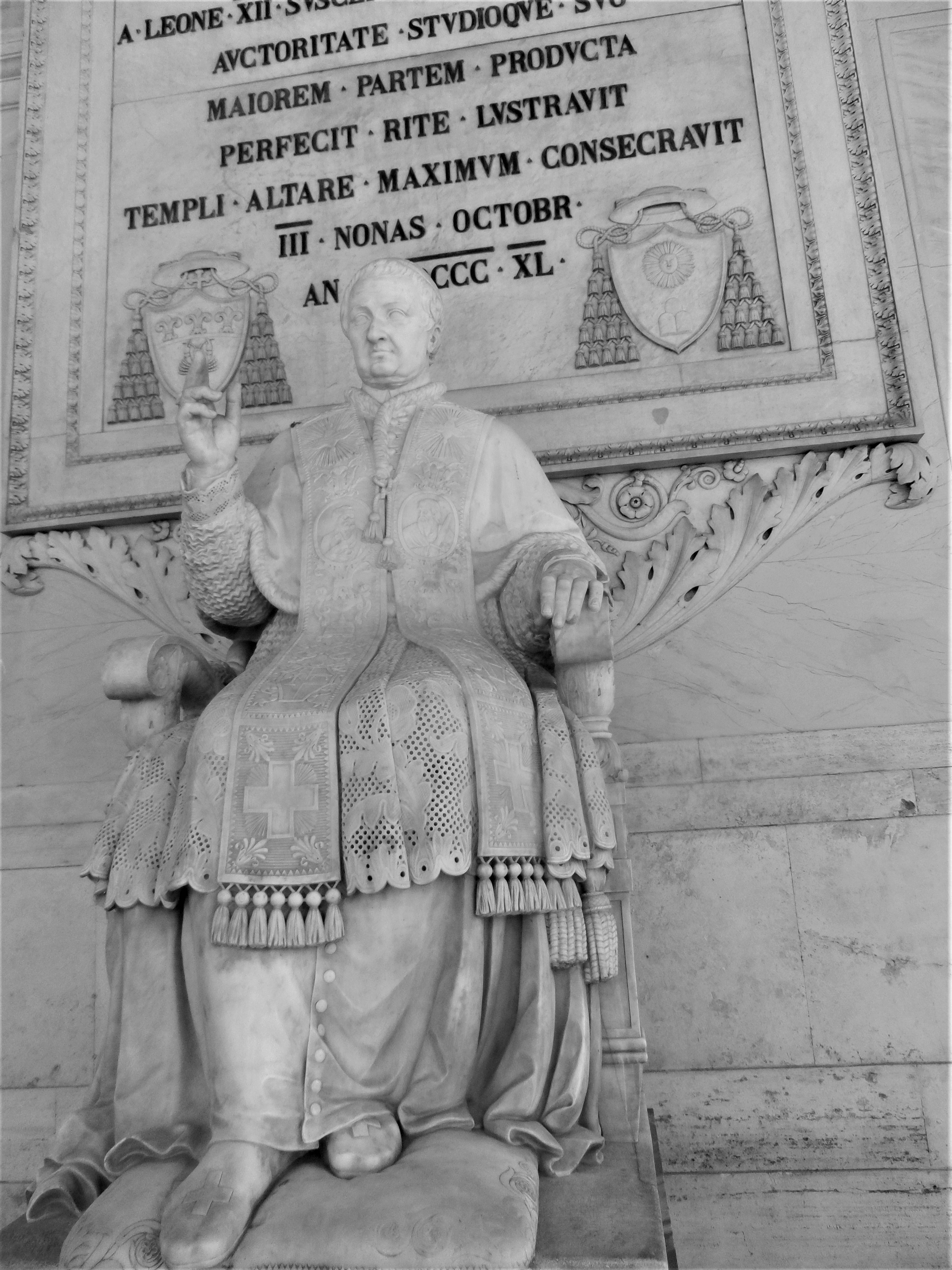 Pope at St Paul Outside the walls